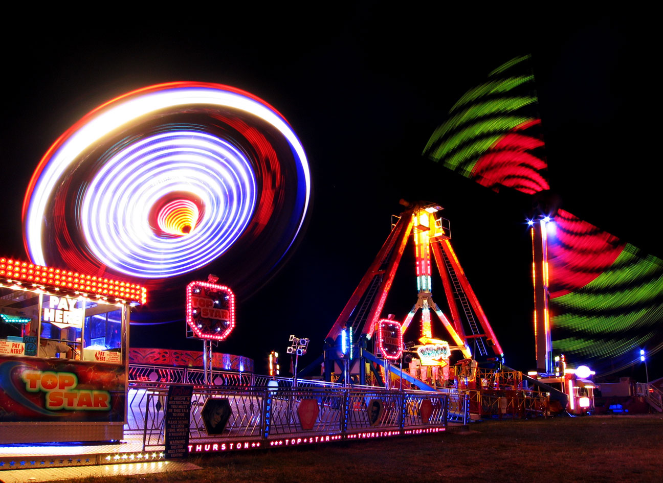 Super Star, Freak Out, and Booster in action. Cambridge Midsummer Fair 2005 at night. Three rides in action, from left to right :Super Star - Top Star - John Thurston :Freak Out - Oblivion - John Bugg :KMG Booster - eXtreme - Walter Murphy Keywords: Super Star, Freak Out, Booster, Funfair, fairground